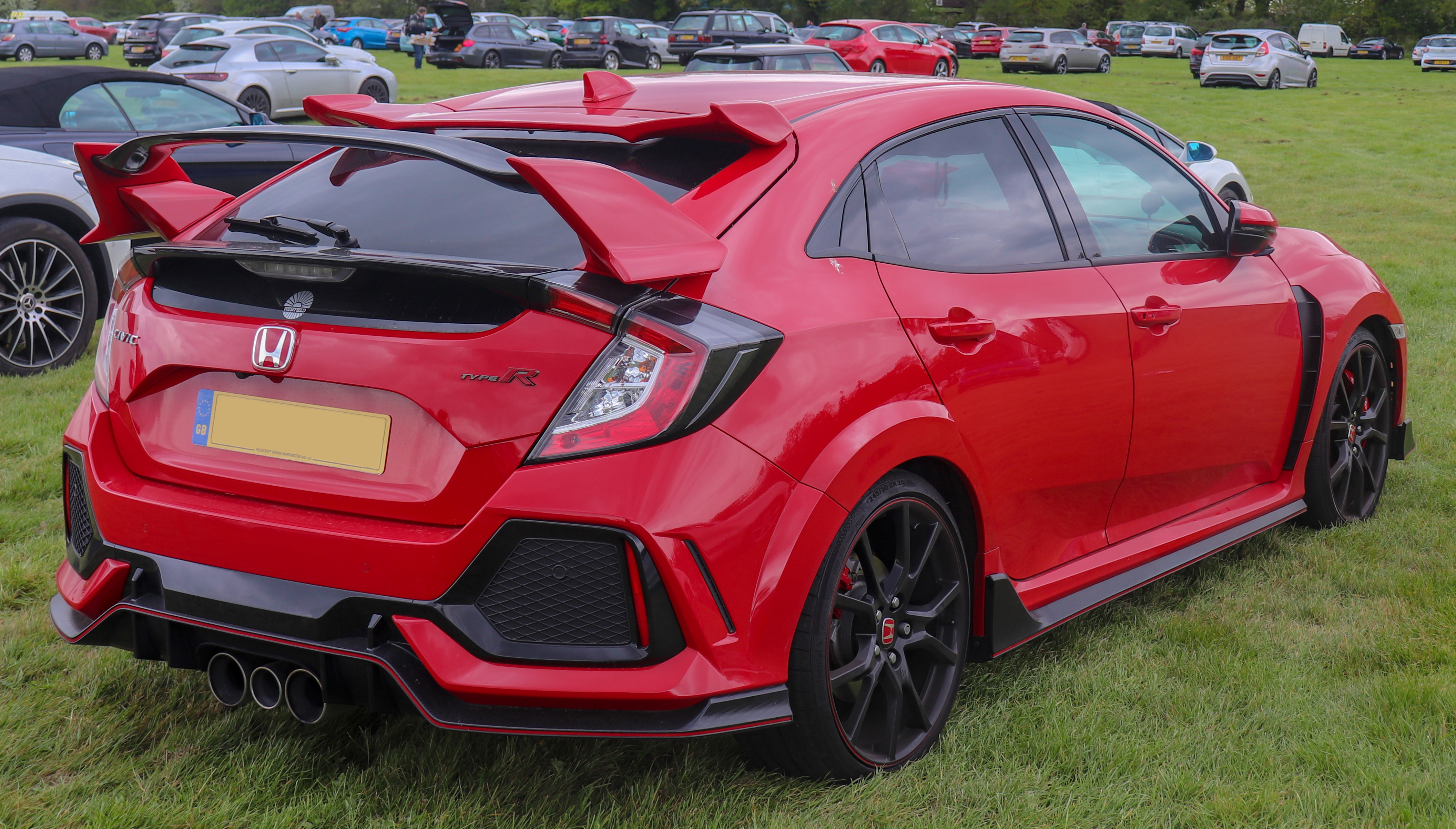 2018 Honda Civic GT Type R VTEC 2.0 Rear Taken in NAEC Stoneleigh, Warwickshire